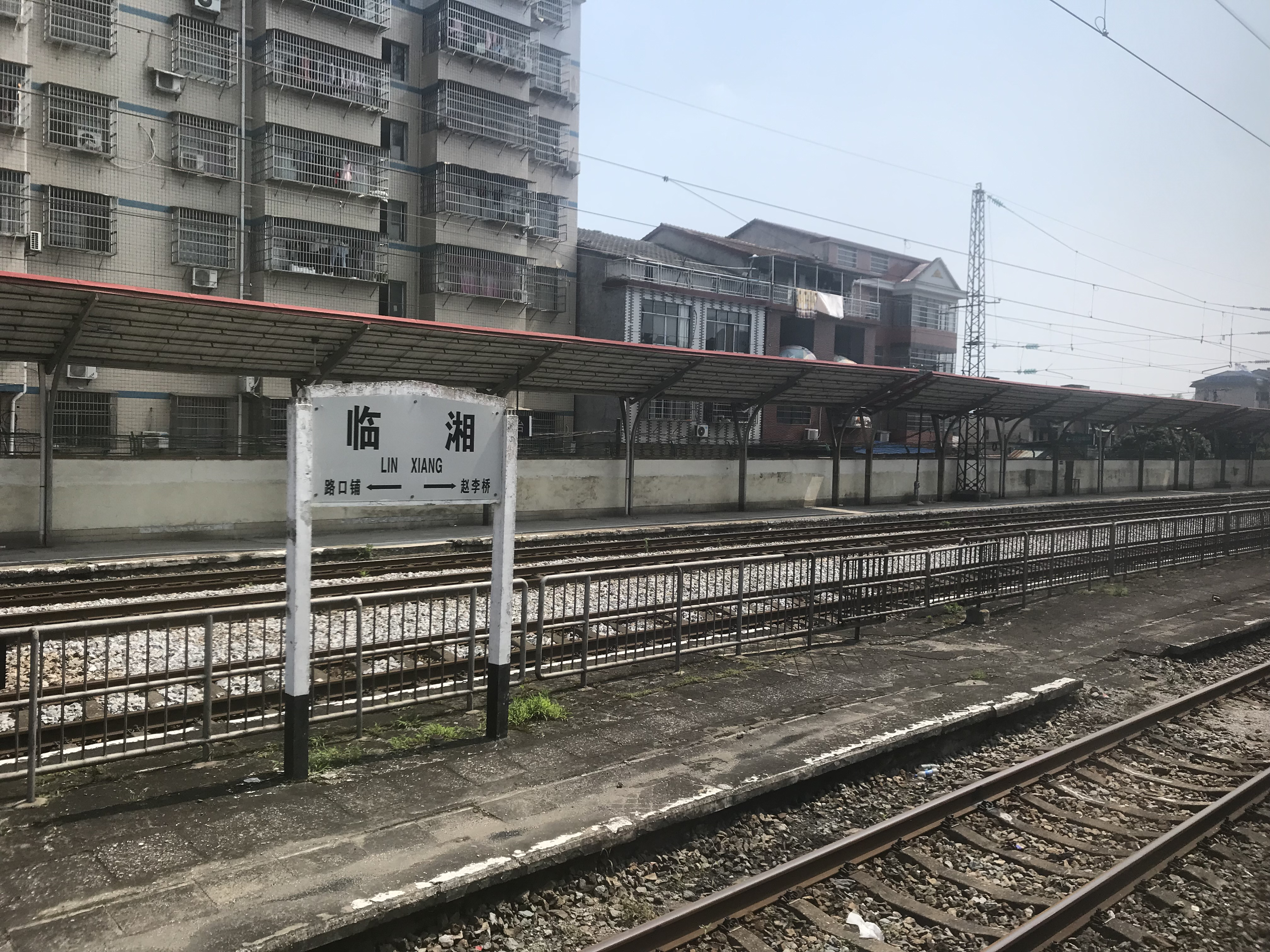 201906 Nameboard of Linxiang Station